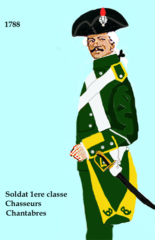 Uniforms of the french rifles of foot in 1788